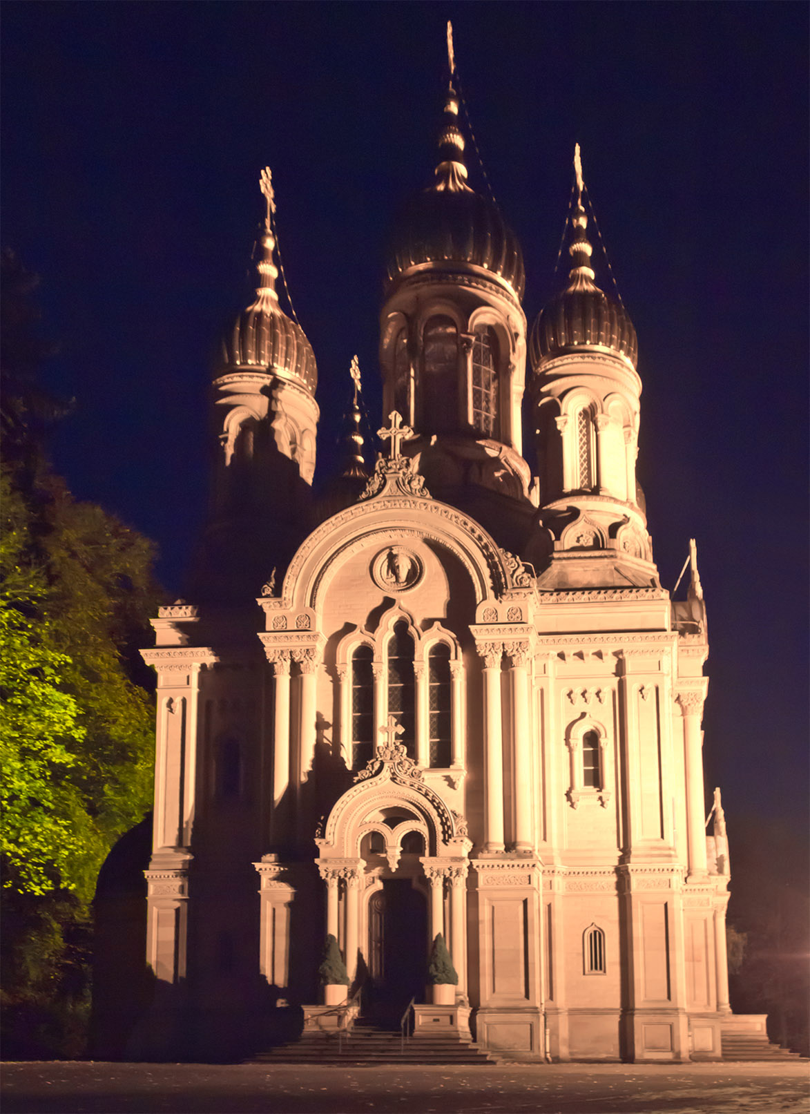 Russian Orthodox Church of Saint Elizabeth on the Neroberg mountain in Wiesbaden, Germany